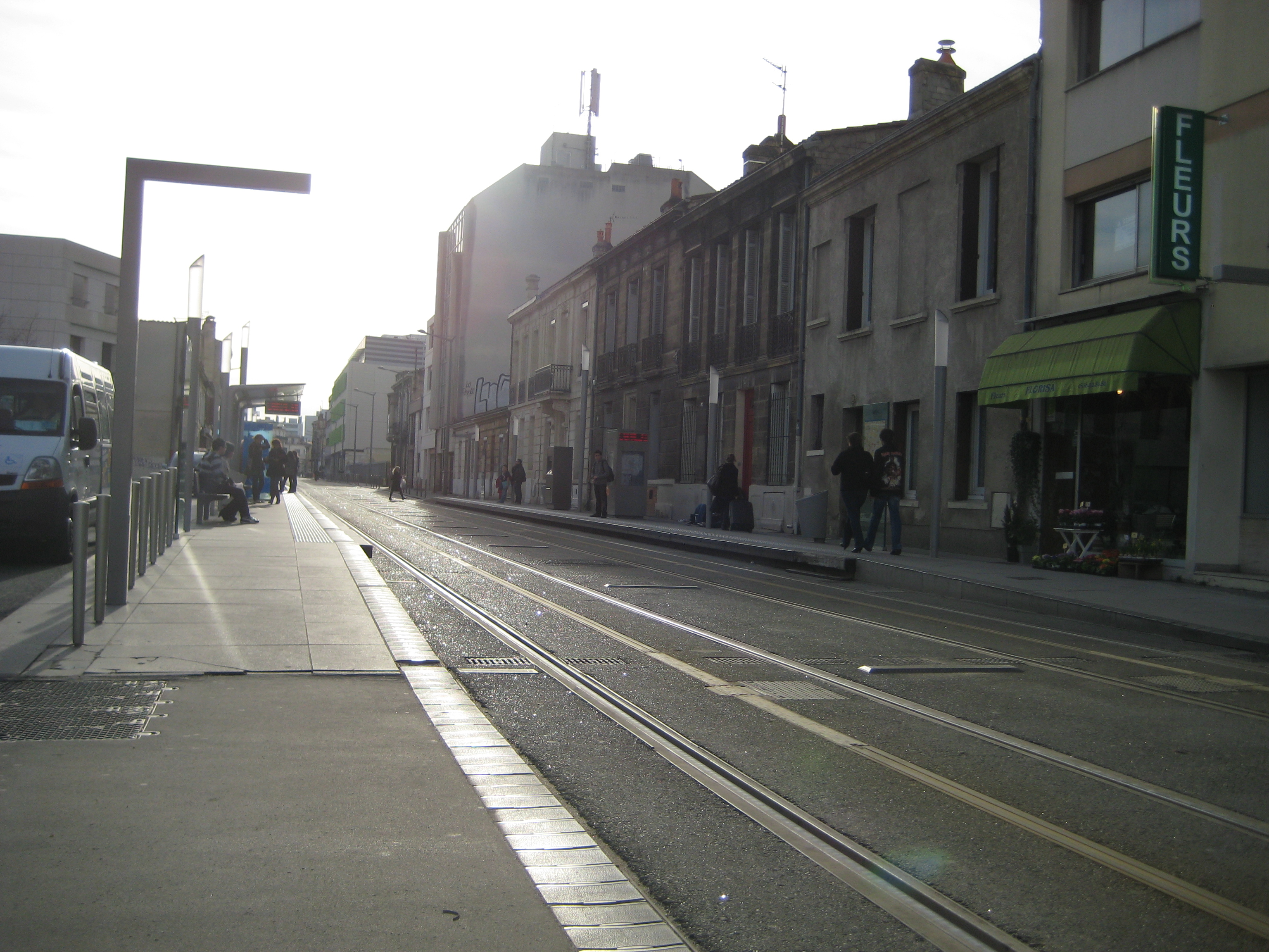 Station Bergonié of the Tramway de Bordeaux